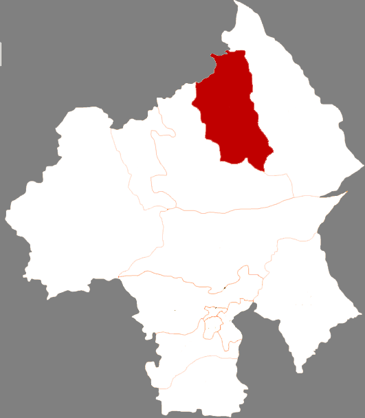 Location of Baarin Left Banner in Chifeng City, China